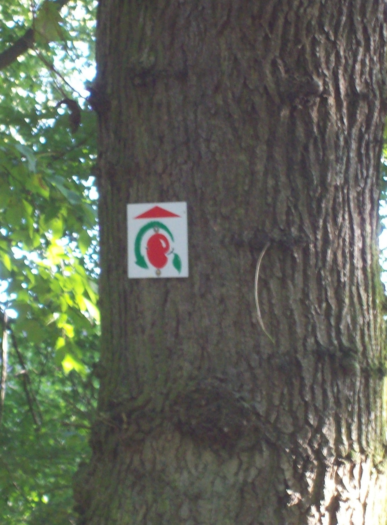 the Logo of the "Apfelwein- und Obstwiesenroute" in Hessen, Germany.